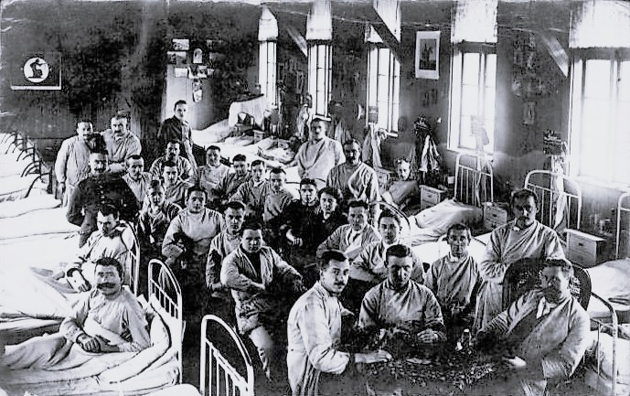 At the beginning of the First World War had the war commissariat in Altona, seat of the XI. Army Corps, erected a camp on the Burgfeld in Lübeck, because the space was considered particularly suitable for this purpose. The Lübeck Upper rod doctor of the reserve, Eugen Plessing (Thomas Mann used him in his roman Buddenbrooks), was entrusted with the organization and leadership of Barack hospital. Already in its planning, it was assumed that it would be the greatest in the north. It is said that that was one hospital in the war of the largest within the empire, respectively it has been the largest one.